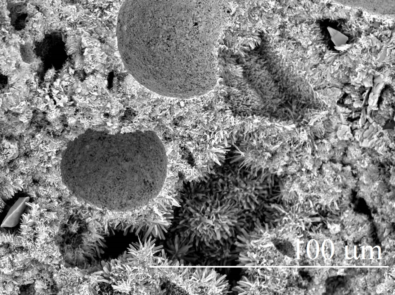 Structure inside autoclaved aerated concrete (AAC) with various crystals (tobermorite, CaSO4, Jennite etc).